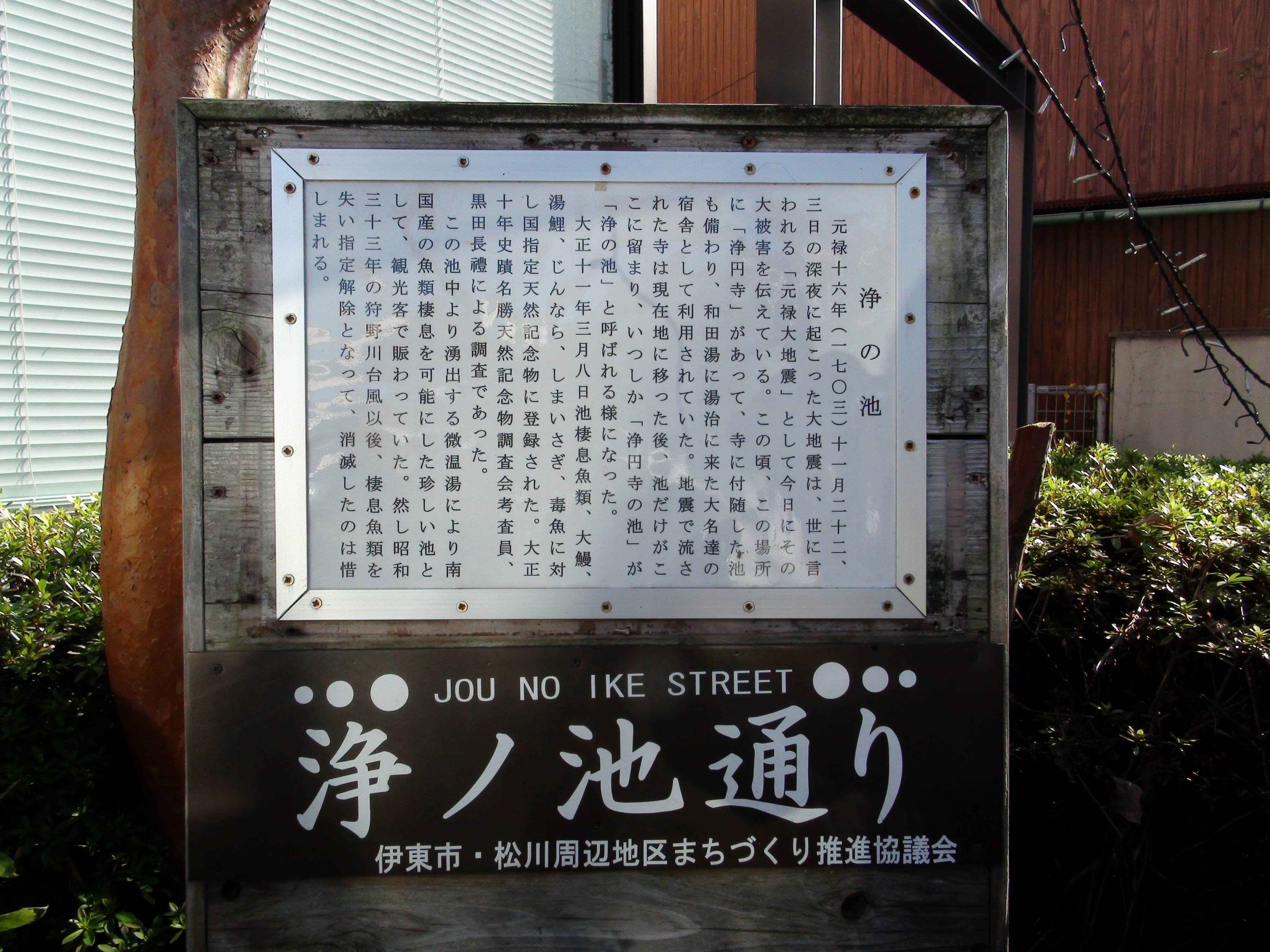 Signboard for description of Jono-ike pond.